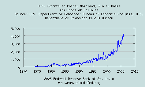 Chart of U.S. Exports to China, from the United States Federal Reserve Bank of St. Louis, 2006.